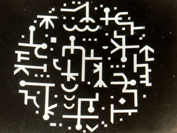 Callygraphys are in the reservoir, Budapest at Rác-fürdő